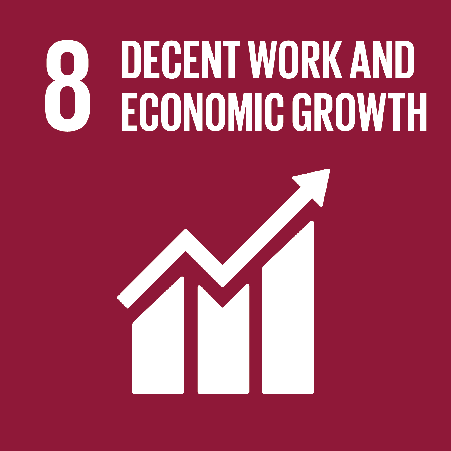 SDG8 Decent Work and Economic GrowthRomână: Obiectivul de dezvoltare durabilă nr. 8: Locuri bune de muncă și economie bună (în engleză)